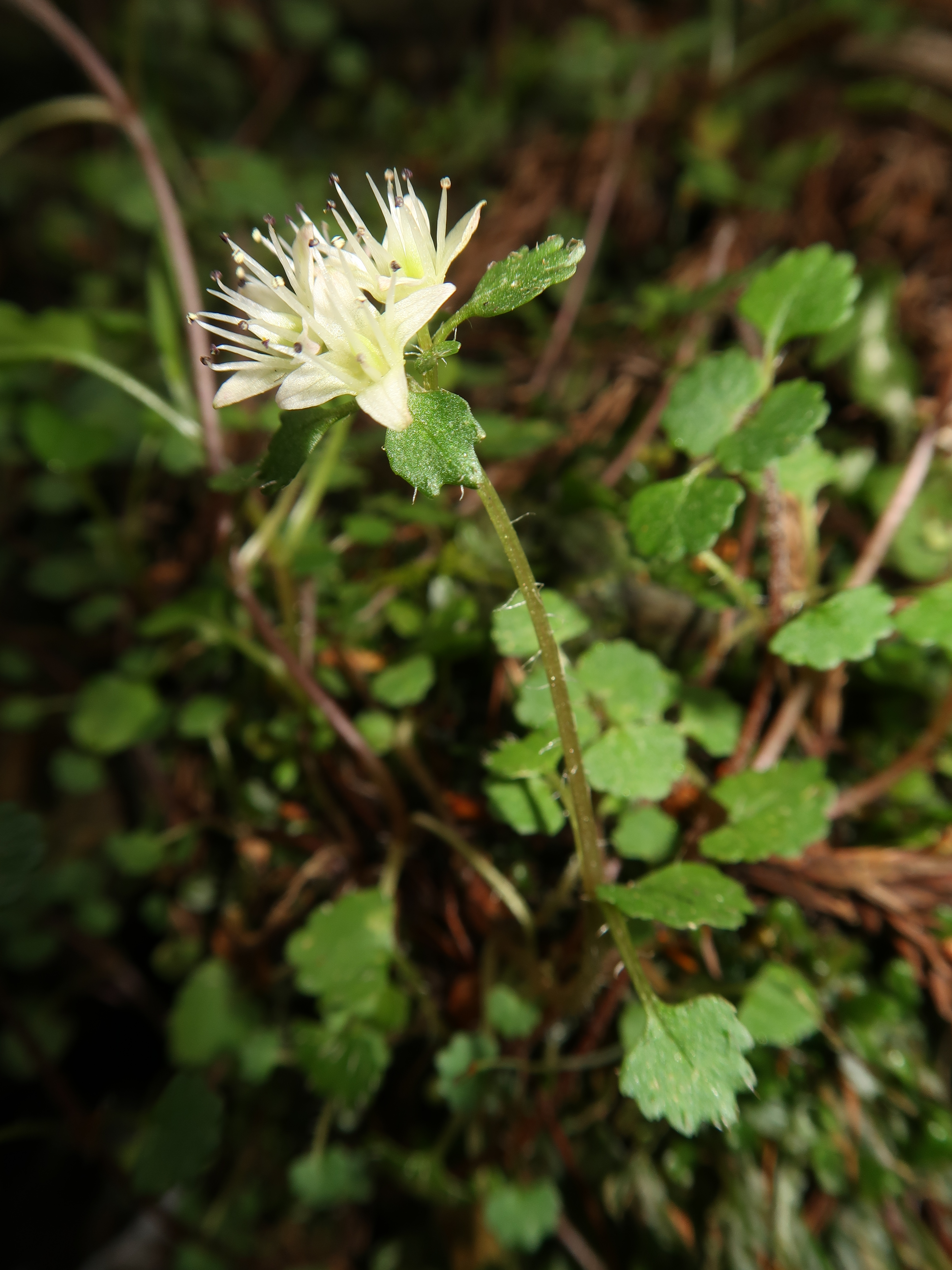 Chrysosplenium album, Takashima city, Shiga pref., Japan